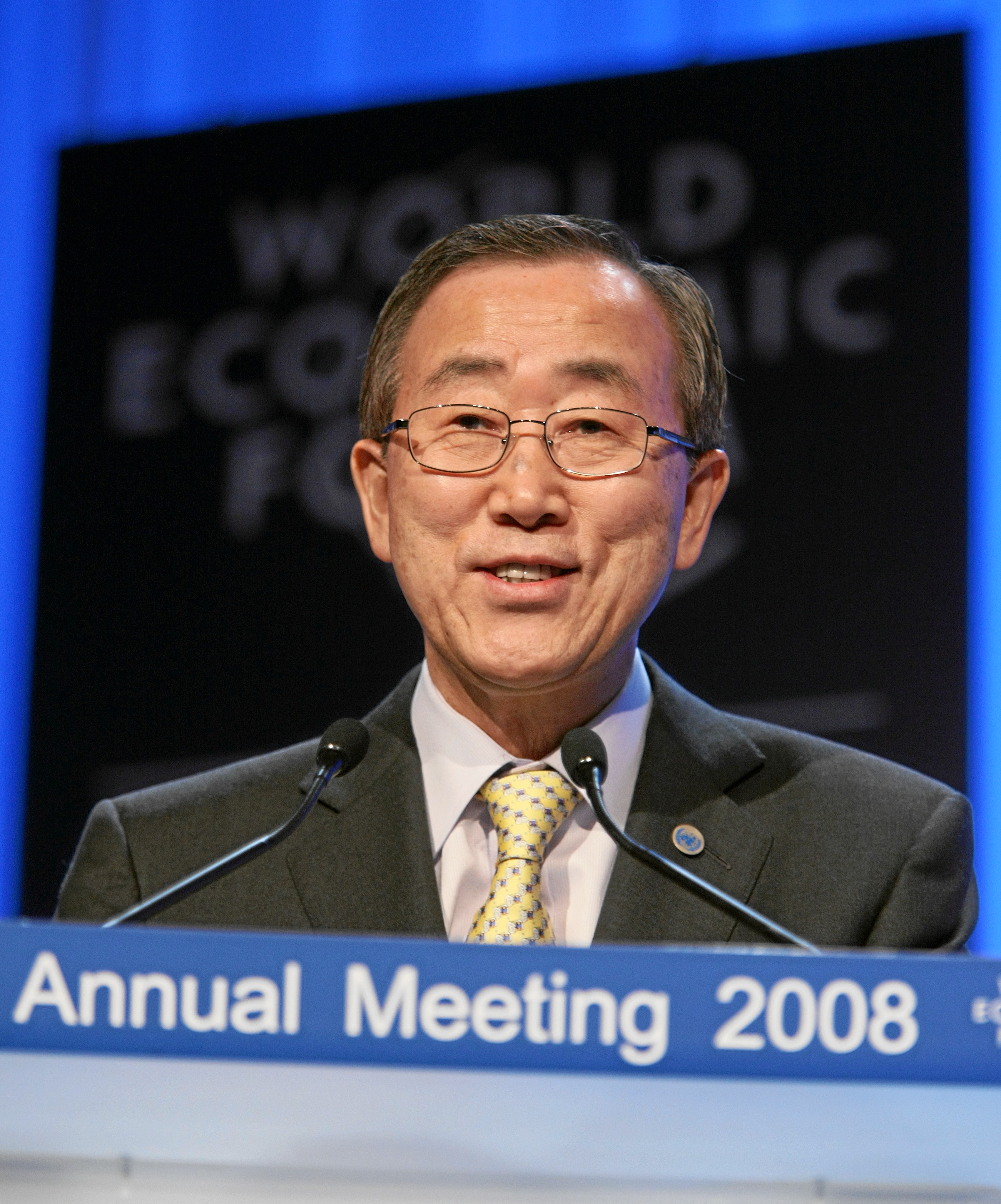 DAVOS/SWITZERLAND, 24JAN08 - Ban Ki-moon, Secretary-General, United Nations, New York addresses the audience during the session 'Time Is Running Out for Water' at the Annual Meeting 2008 of the World Economic Forum in Davos, Switzerland, January 24, 2008. Copyright World Economic Forum ( by Remy Steinegger